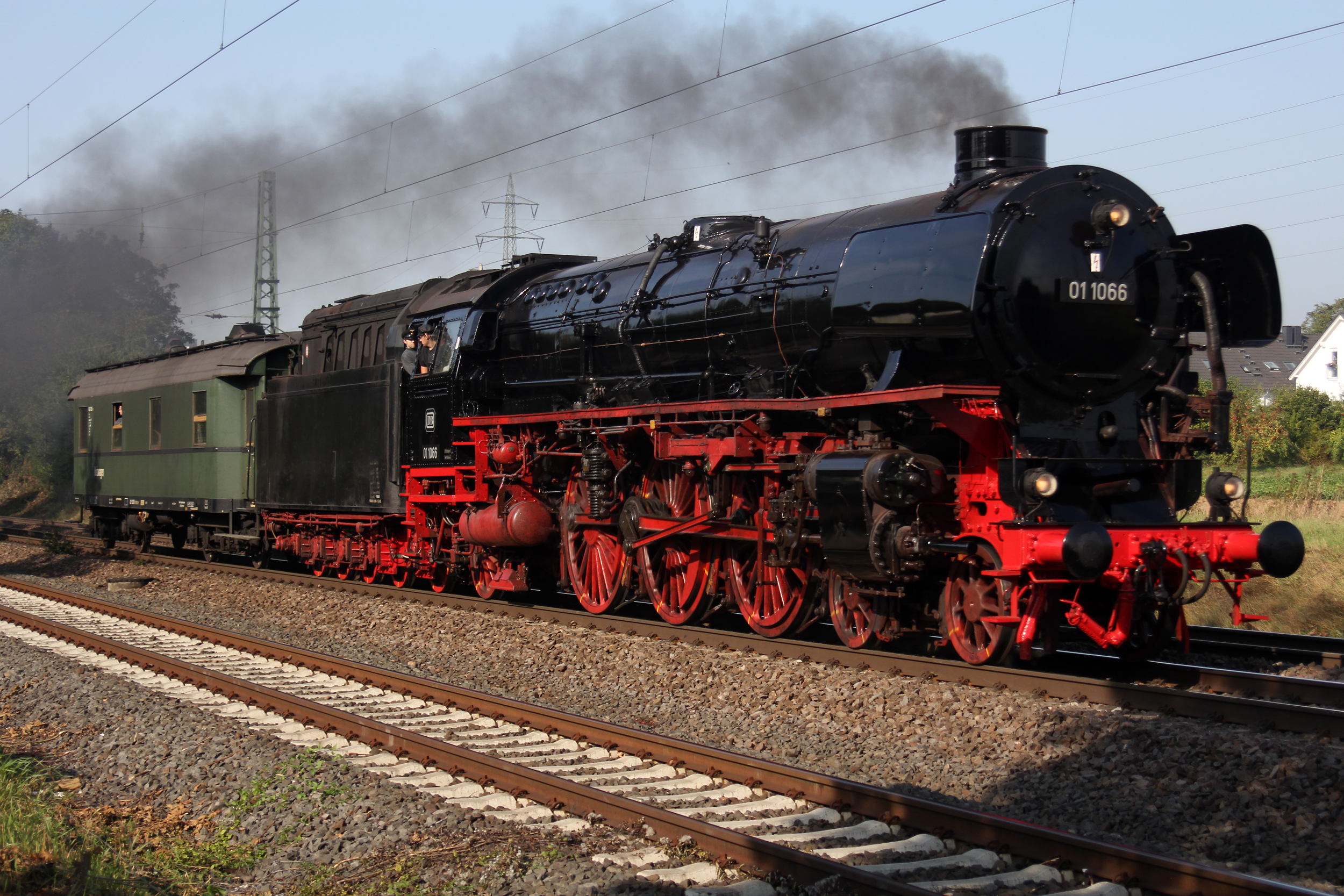 Steamlocomotive 01 1066 UEF - Historischer Dampfschnellzug